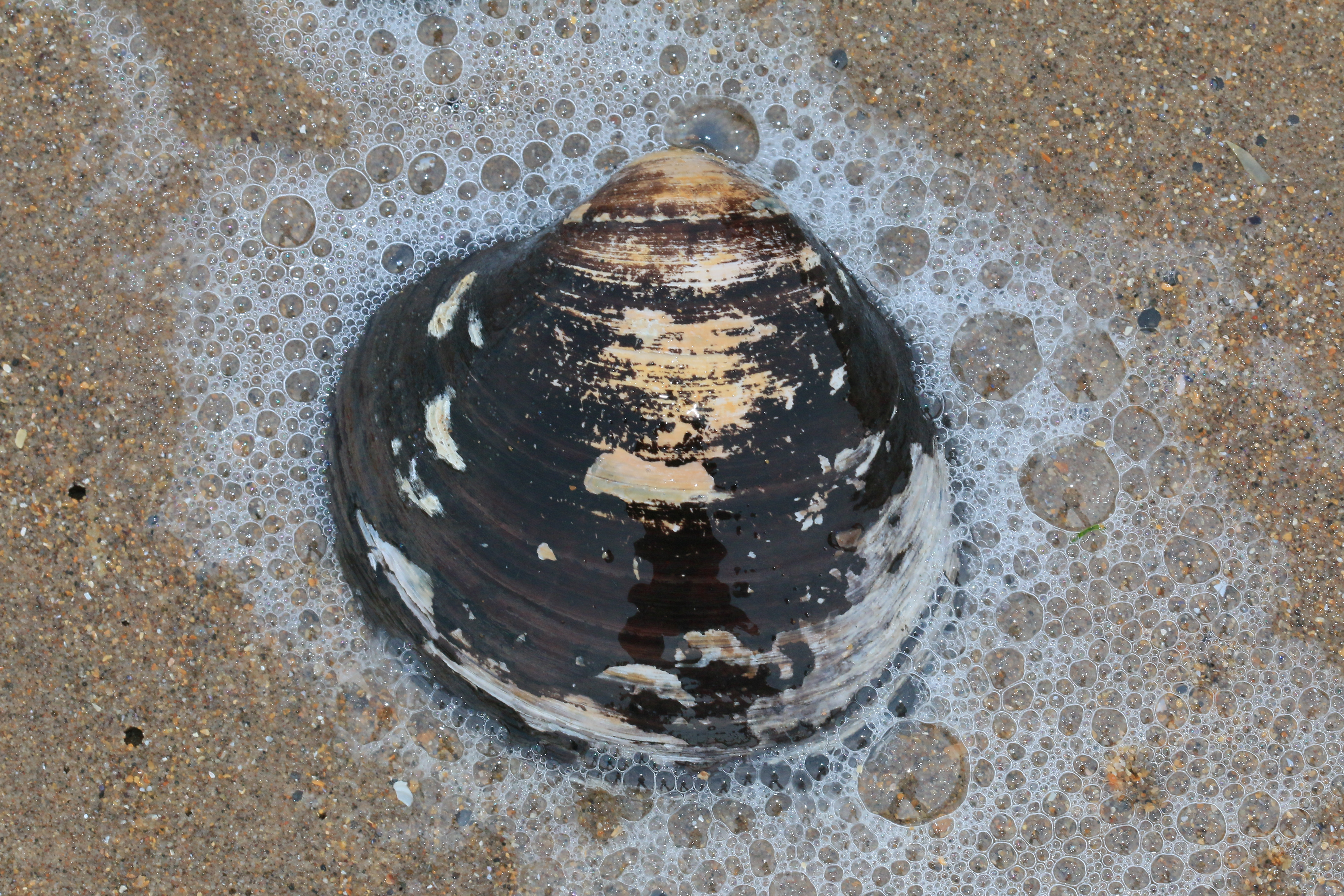 Gullane bents, East Lothian, Scotland